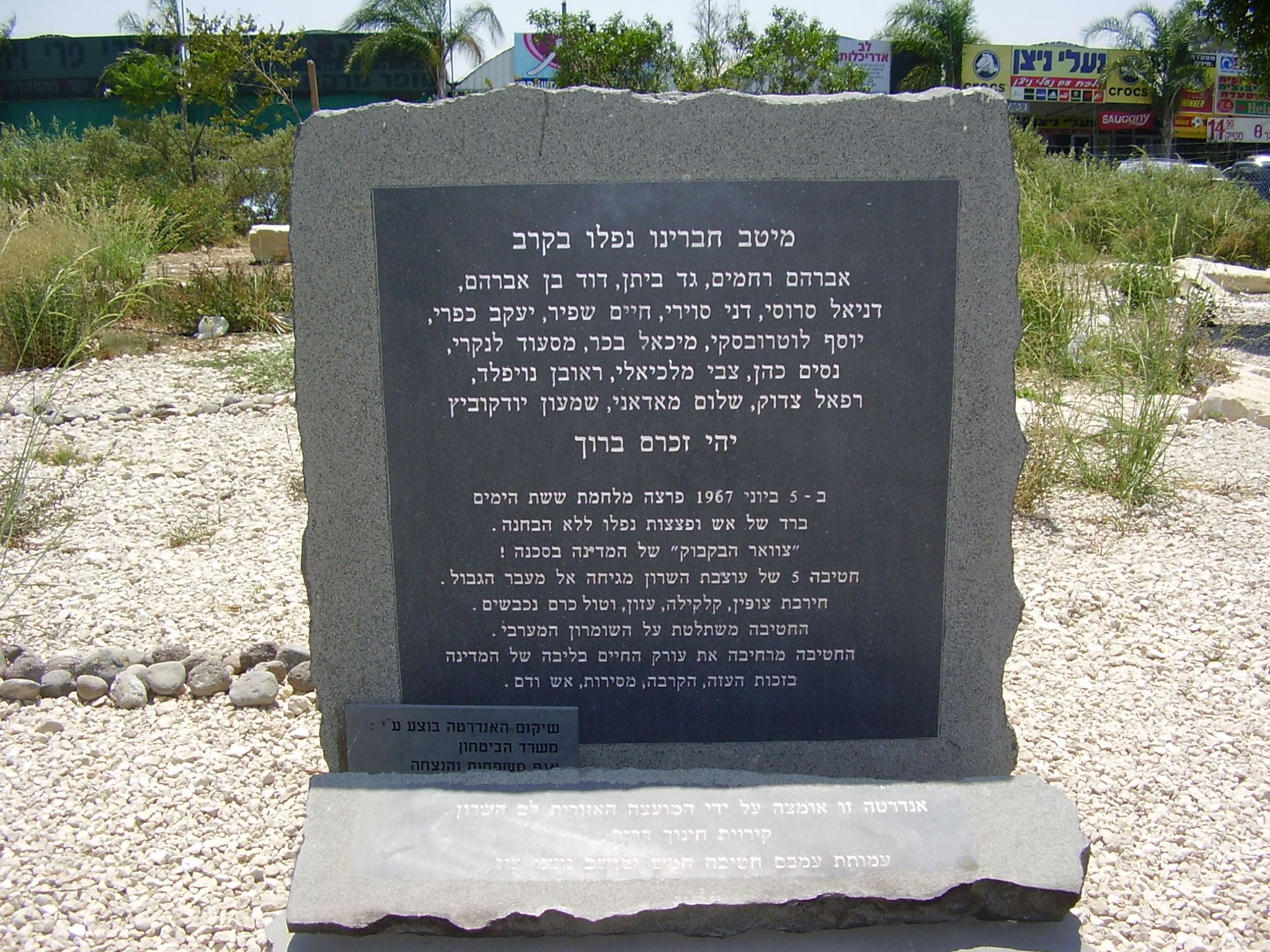 5th brigade memorial in nitzanei-oz near tul-karm